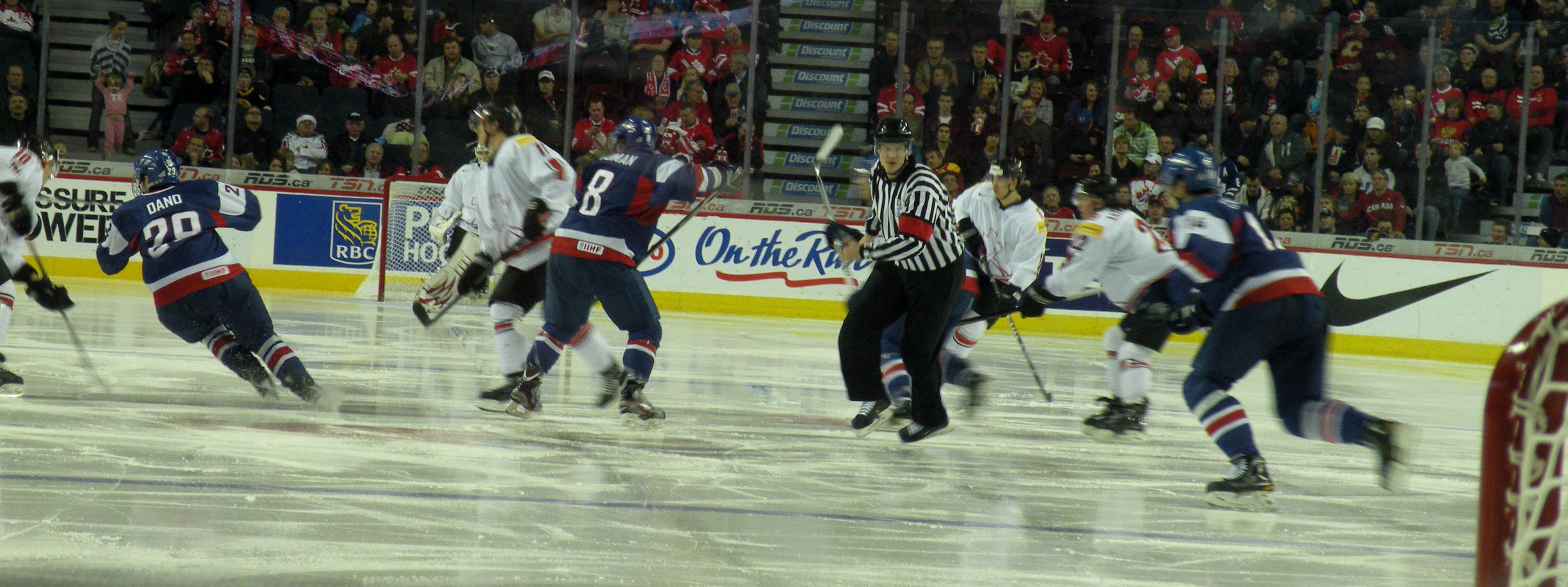 Team Slovakia (blue) against Team Switzerland (white) during the 2012 World Junior Hockey Championship, played at Calgary, Alberta, Canada.